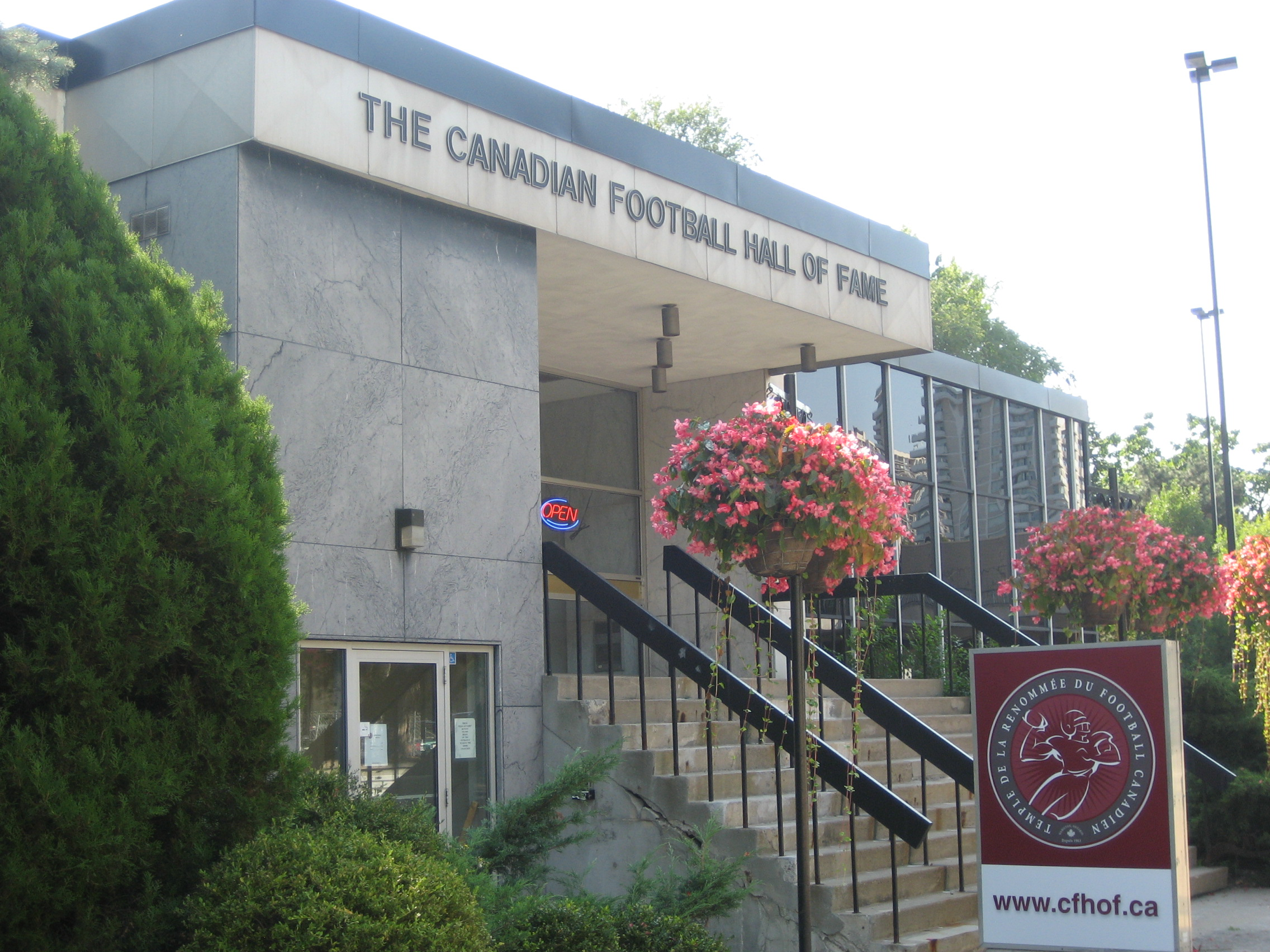 Canadian Football Hall of Fame, Hamilton, Canada.